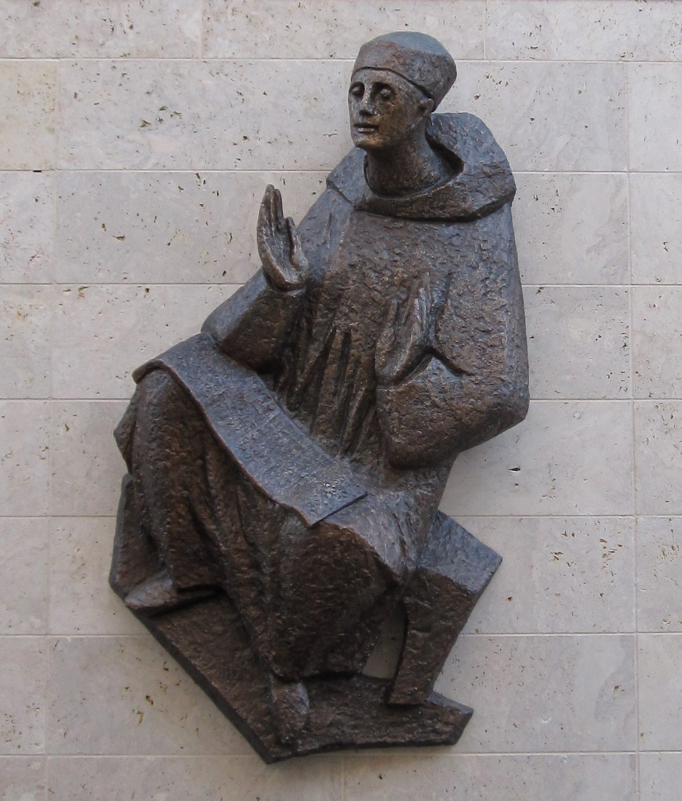 Bronze sculpture of Albertus Magnus on an external wall of a building in Unterlinden, a square in the Altstadt (Old City) of Freiburg im Breisgau, Baden-Württemberg, Germany. It commemorates the destruction of a former Predigerkloster ("preaching cloister" – probably a reference to a Dominican monastery) on 27 November 1944.